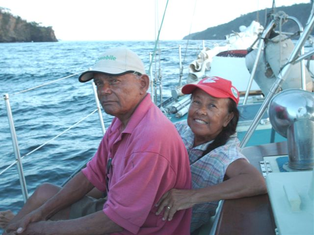 Image of Harodl La Borde